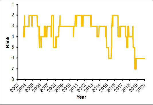 IRB World Rankings from